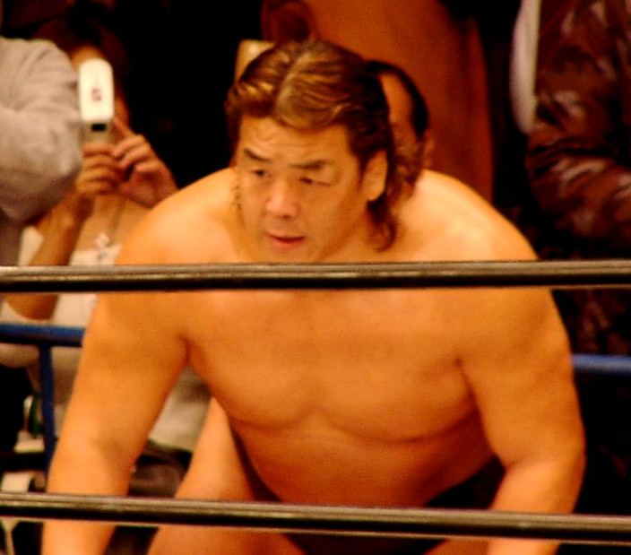 Riki Chōshū at Riki Pro event, at the Korakuen Hall on January 5, 2006.